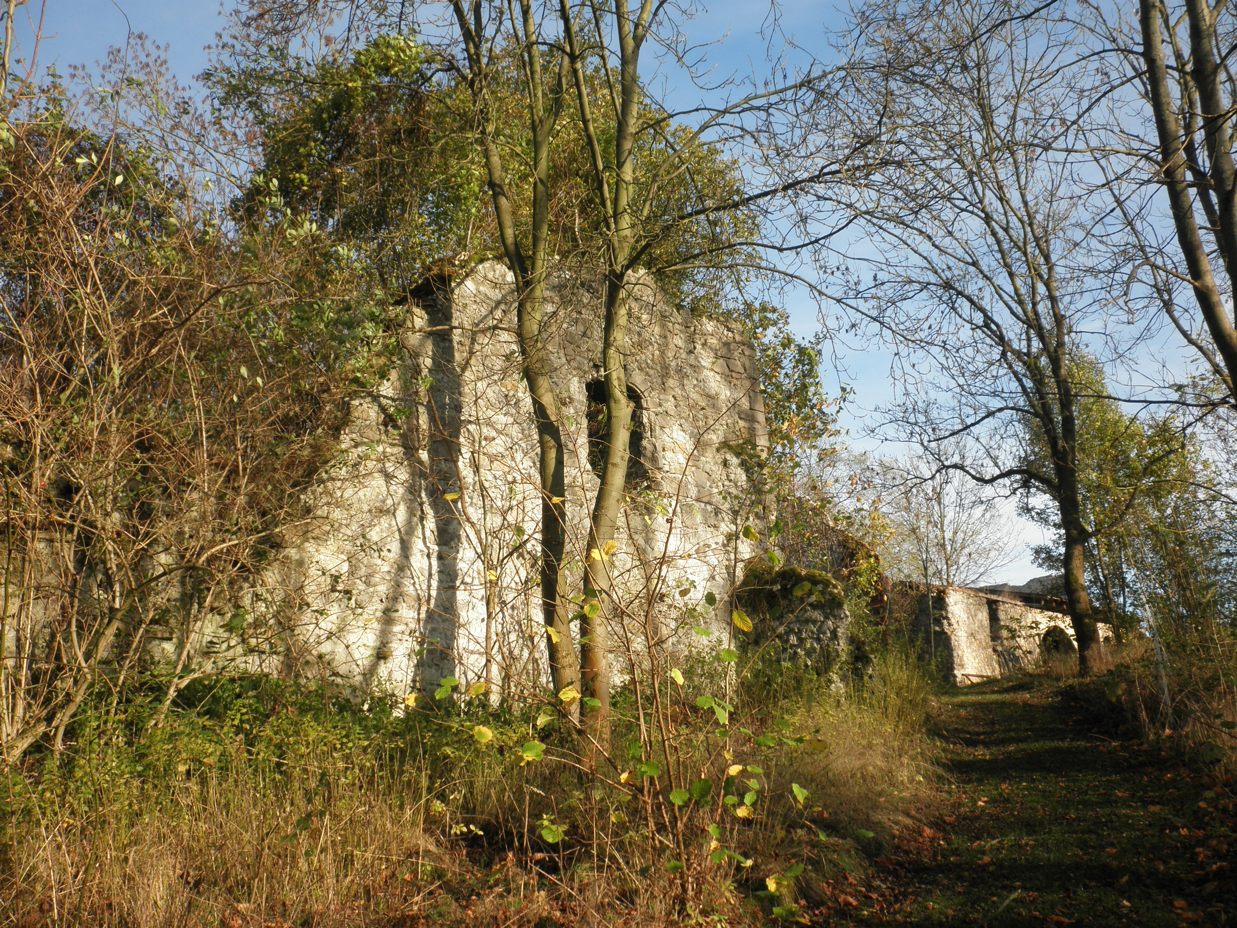 Castle Ruins in Klettenberg (Hohenstein) in Thuringia